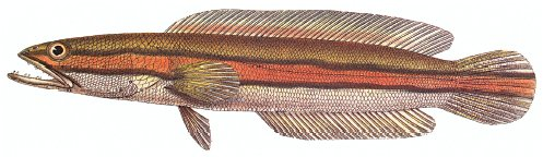 Drawing of Channa micropeltes entitled "After Bleeker, 1878"